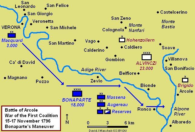 Battle of Arcole, 15-17 November 1796, Bonaparte's Maneuver